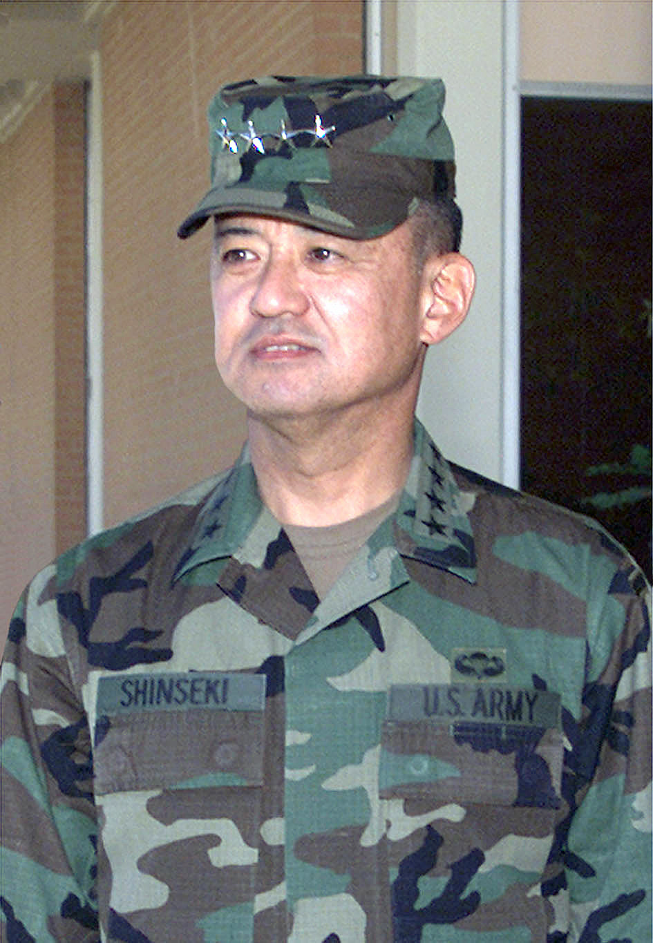 US Army General Eric K. Shinseki, Chief of Staff of the Army, in the lobby of Alexander Hall, Fort Gordon, Georgia.